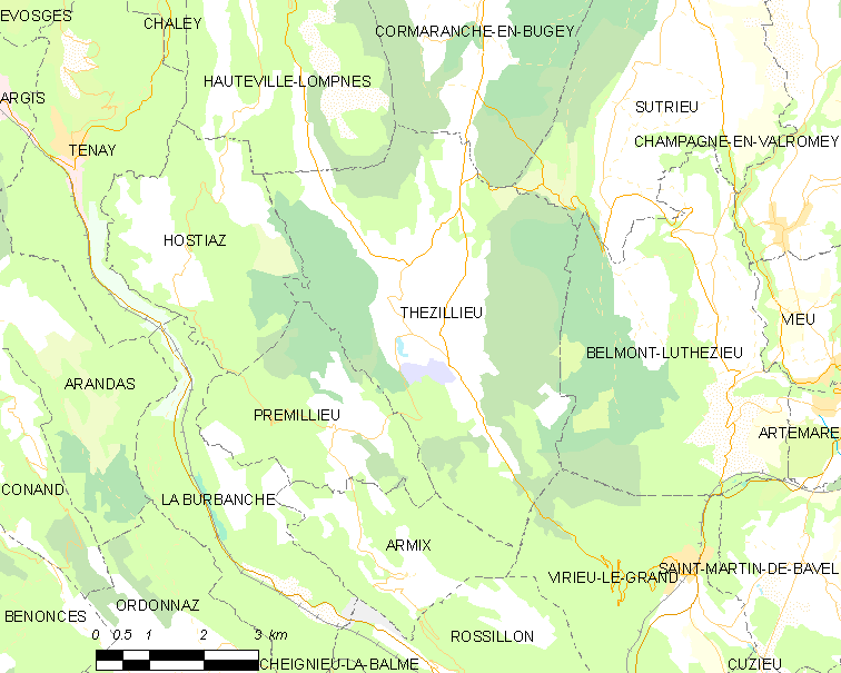 Map of French commune: Thézillieu Map commune FR insee code 01417.png